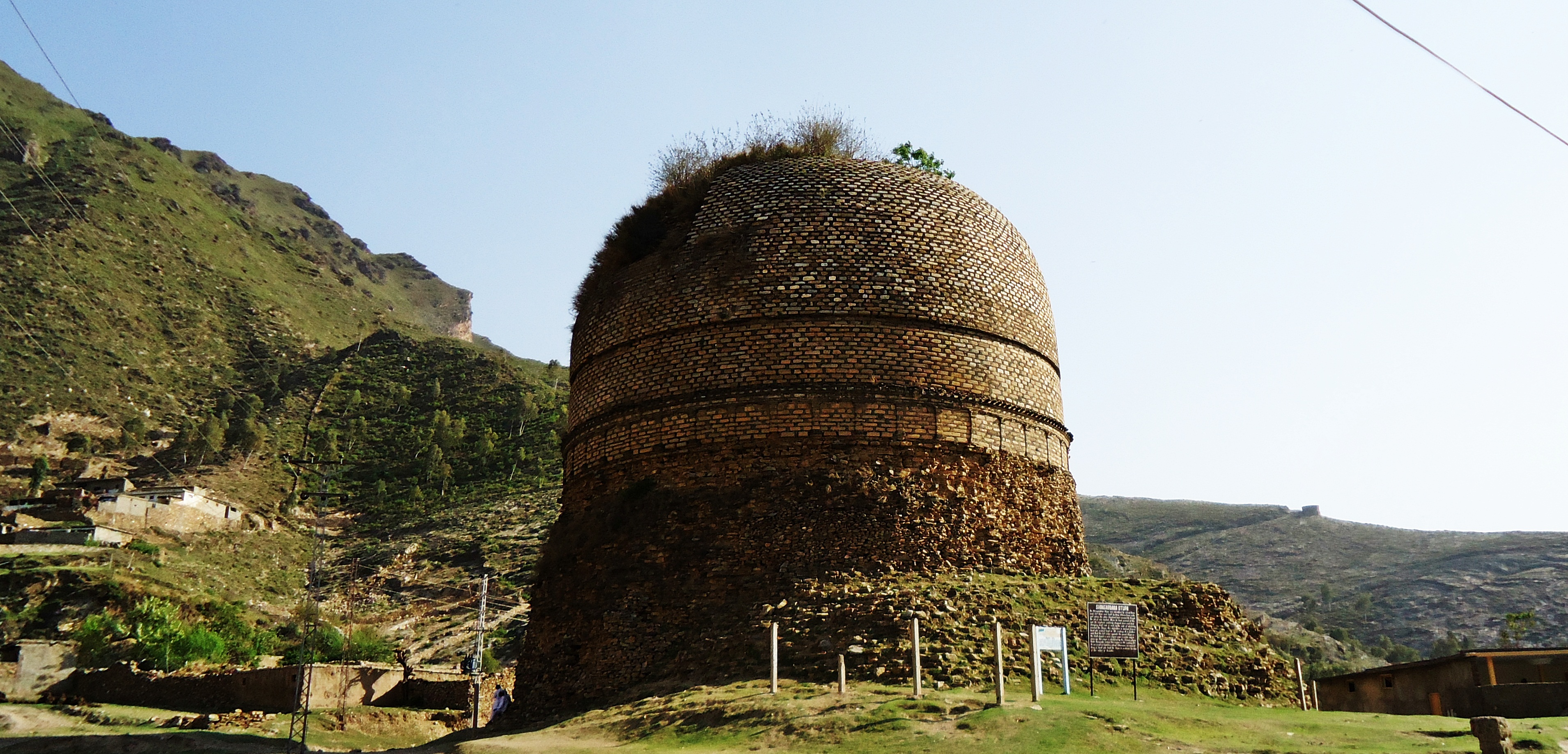 Shingardara stupa This is a photo of a monument in Pakistan identified as the KPK-78